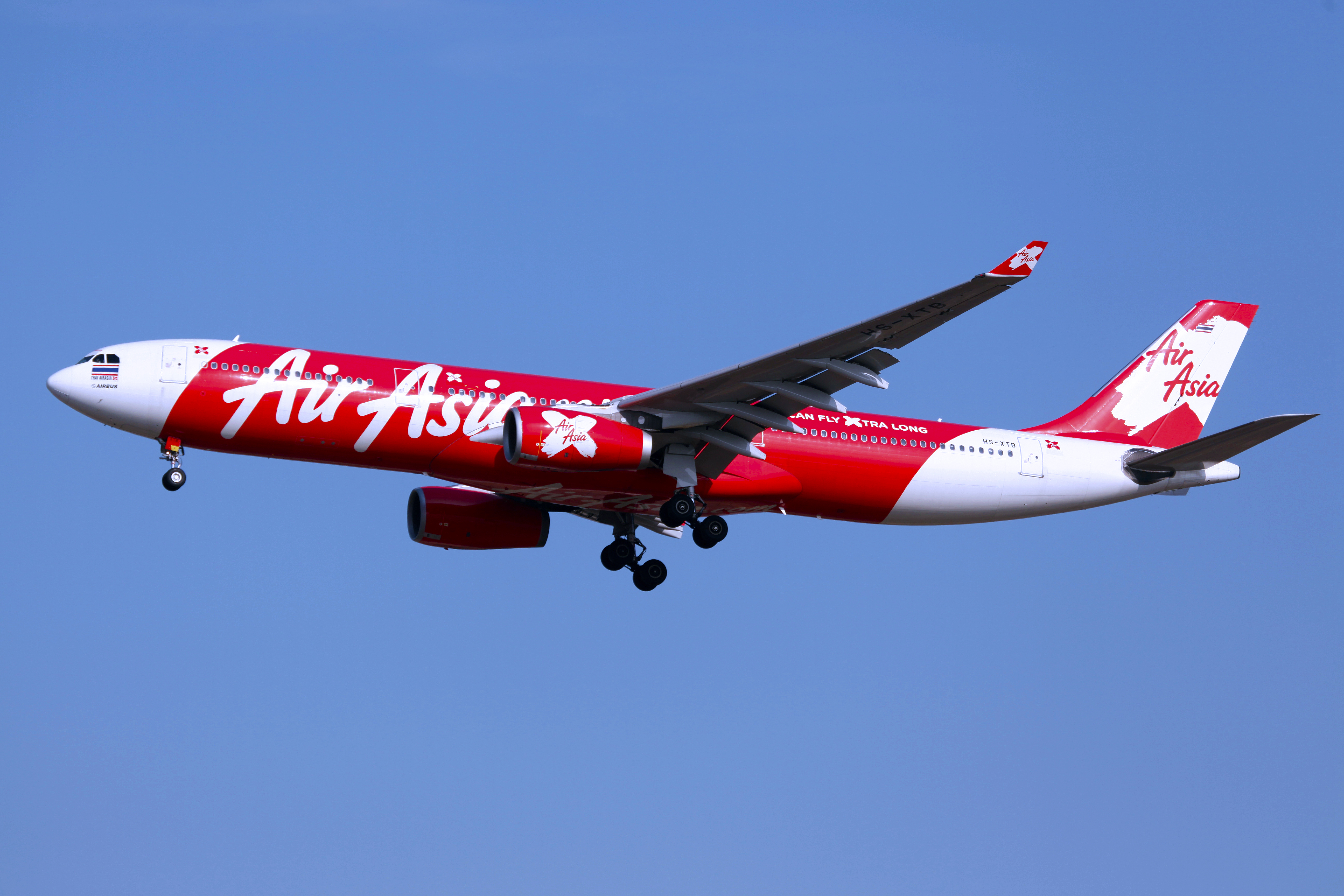 HS-XTB | Thai AirAsia X | Airbus A330-343 | Seoul Incheon International Airport [ICN]